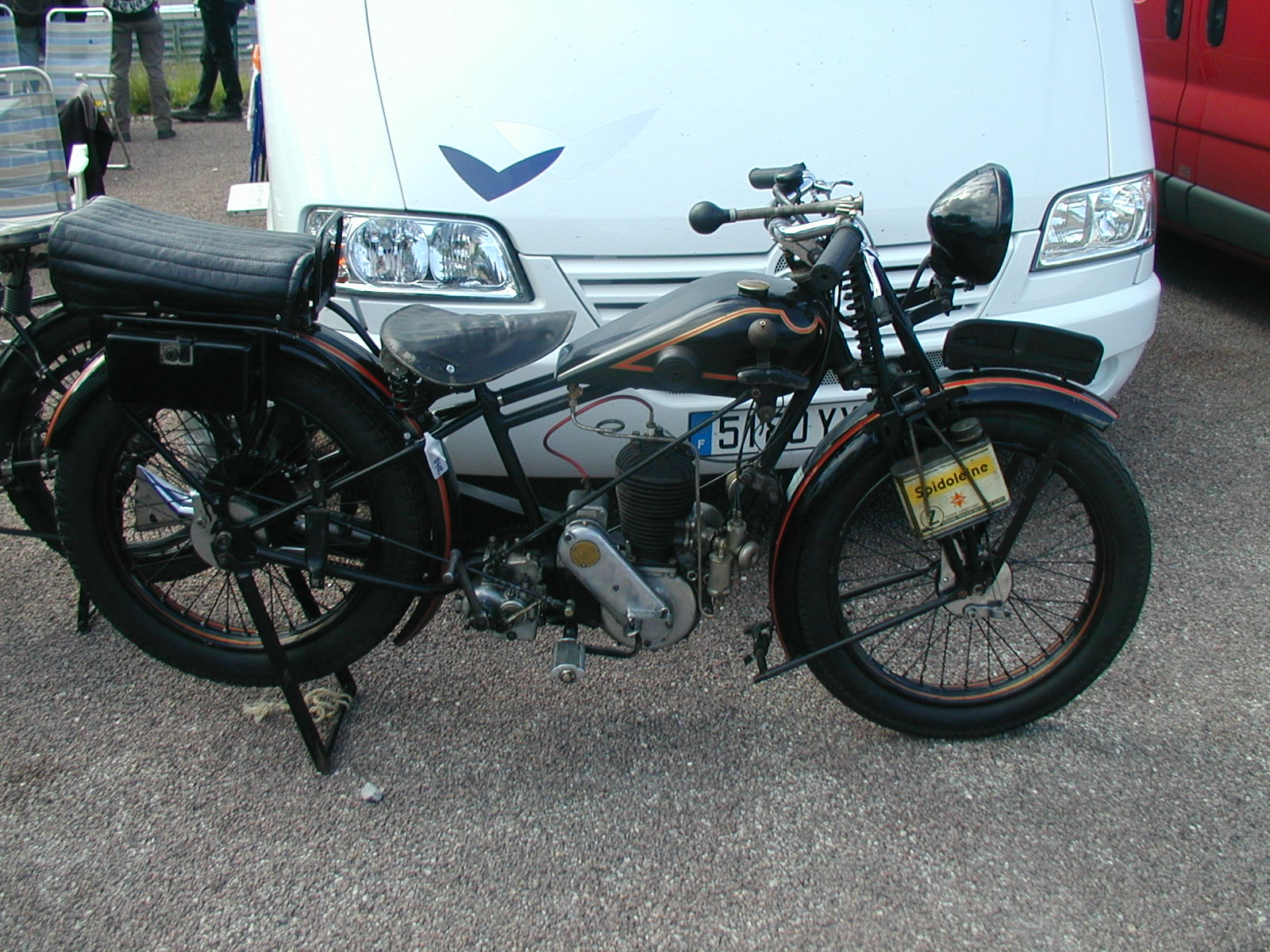 Author Gerard Delafond French motorcycle about 1932